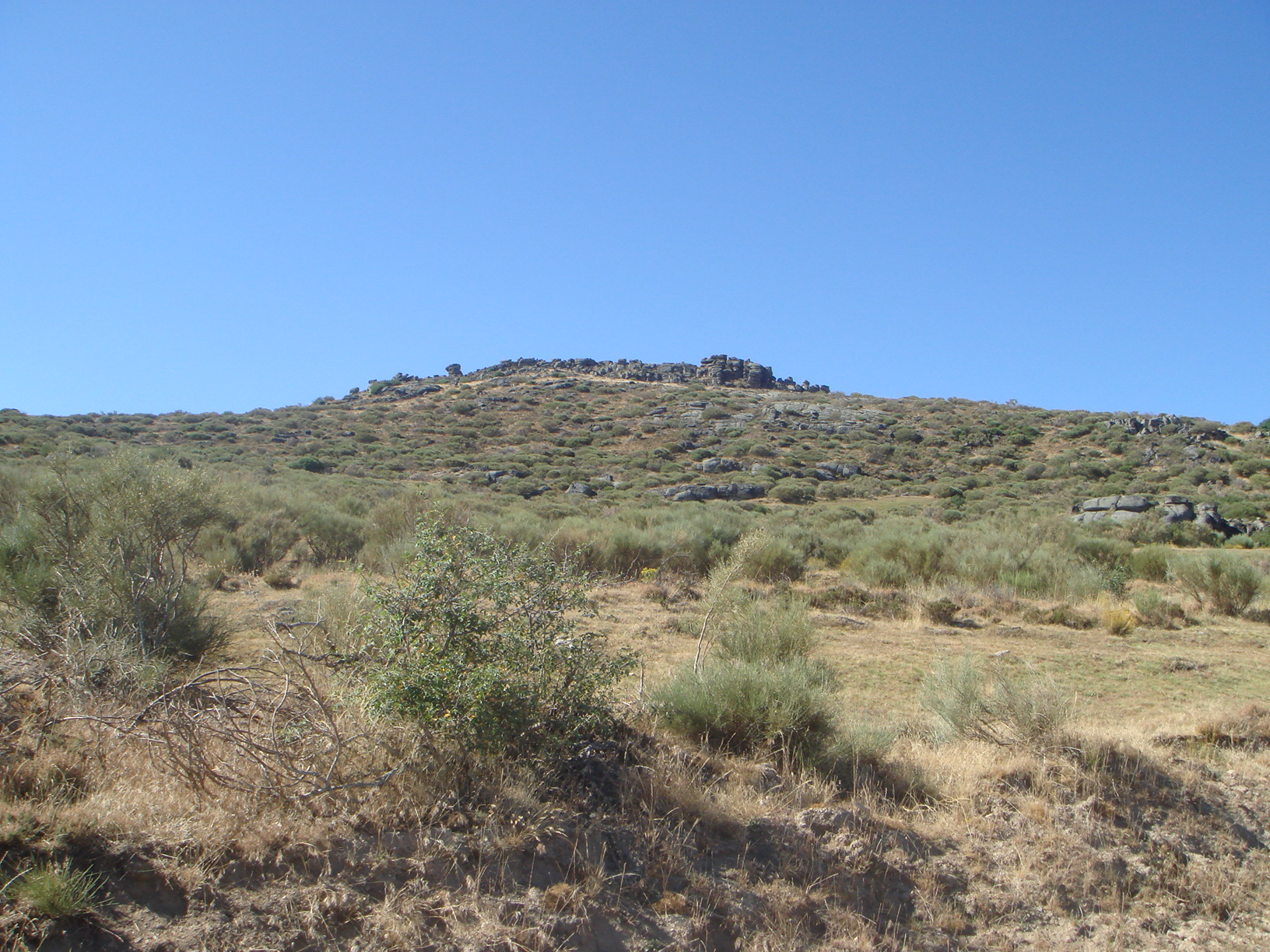 Alto de las Fuentes (1624 m), north face, Sierra de Ávila, Spain.